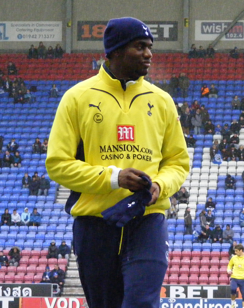 Sebastien Bassong, Wigan Athletic v Tottenham Hotspur, 21st February 2010